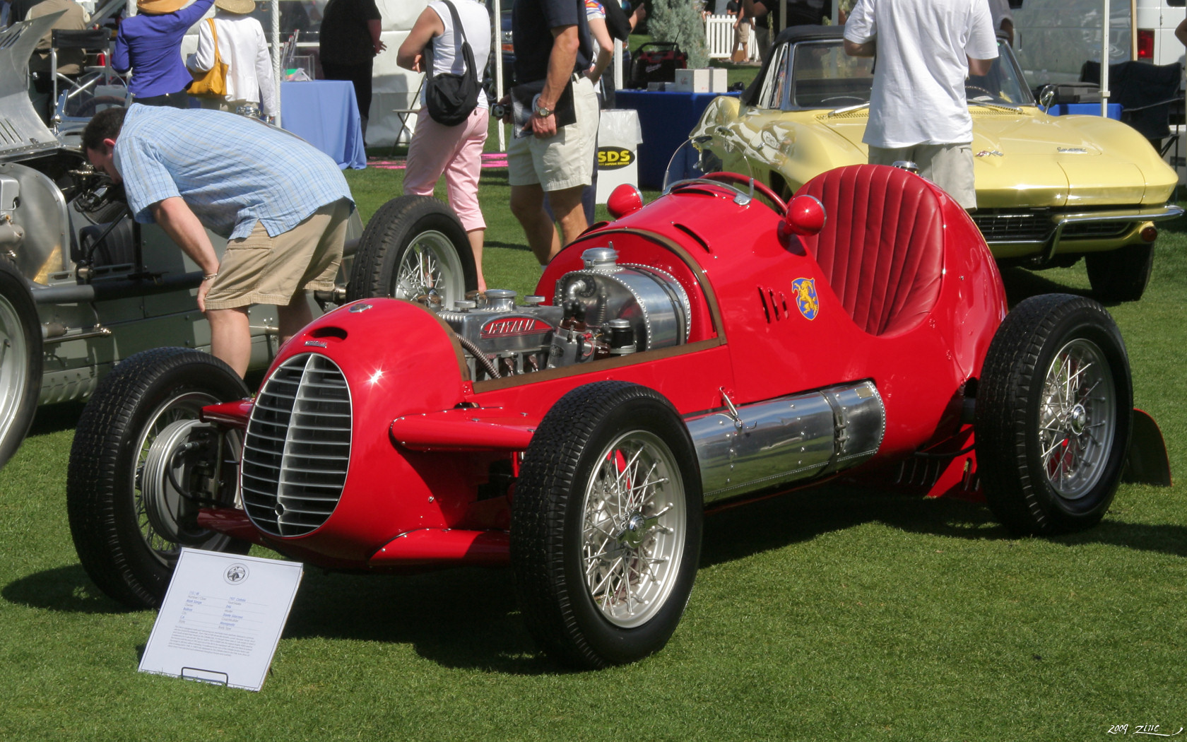 Palm Springs Desert Classic Concours d'Elegance, March 01, 2009 Photographed at Palm Springs Desert Classic Concours d'Elegance, 1 March 2009